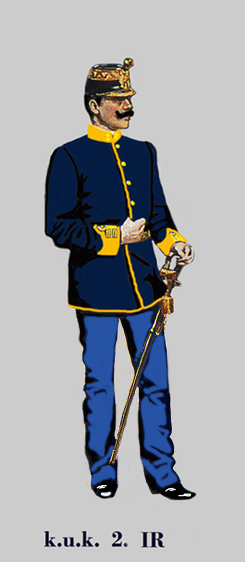 1st lieutenant of the k.u.k. 2nd Infantry Regiment (Hungarian Infantry) in parade dress